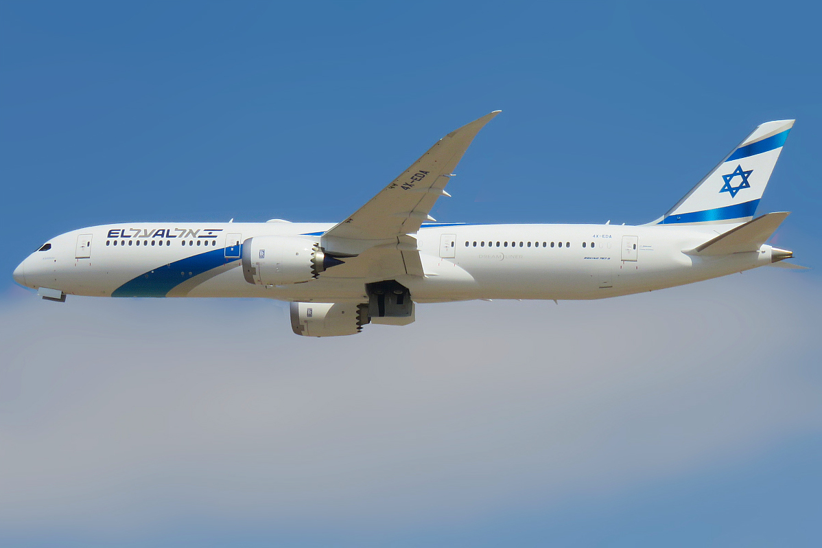 El Al Boeing 787-9 jet number 4X-EDA at Ben Gurion Airport